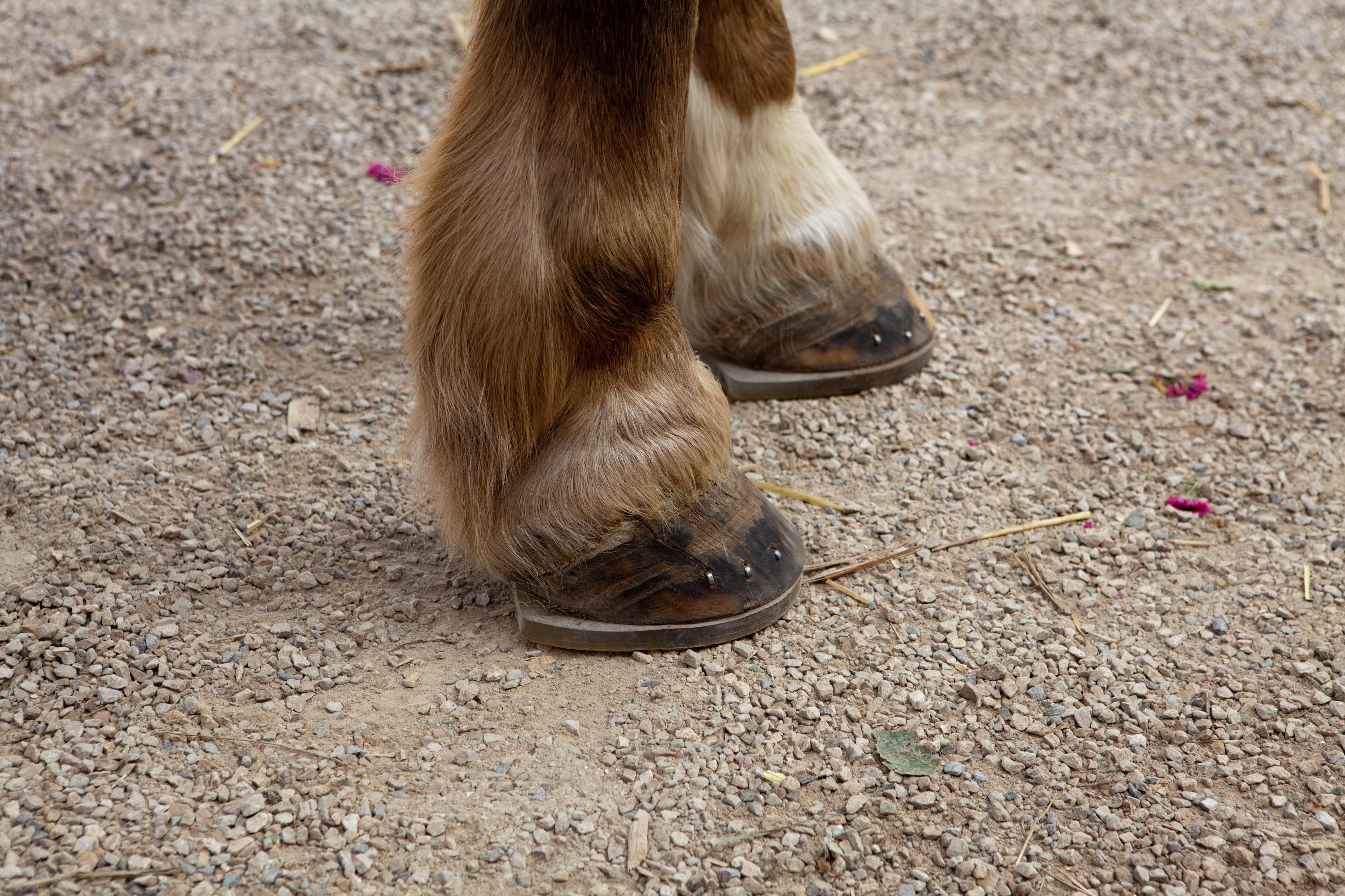 Hufprothese eines Pferdes.